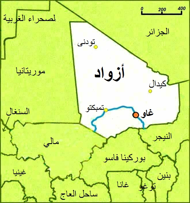 Azawad map